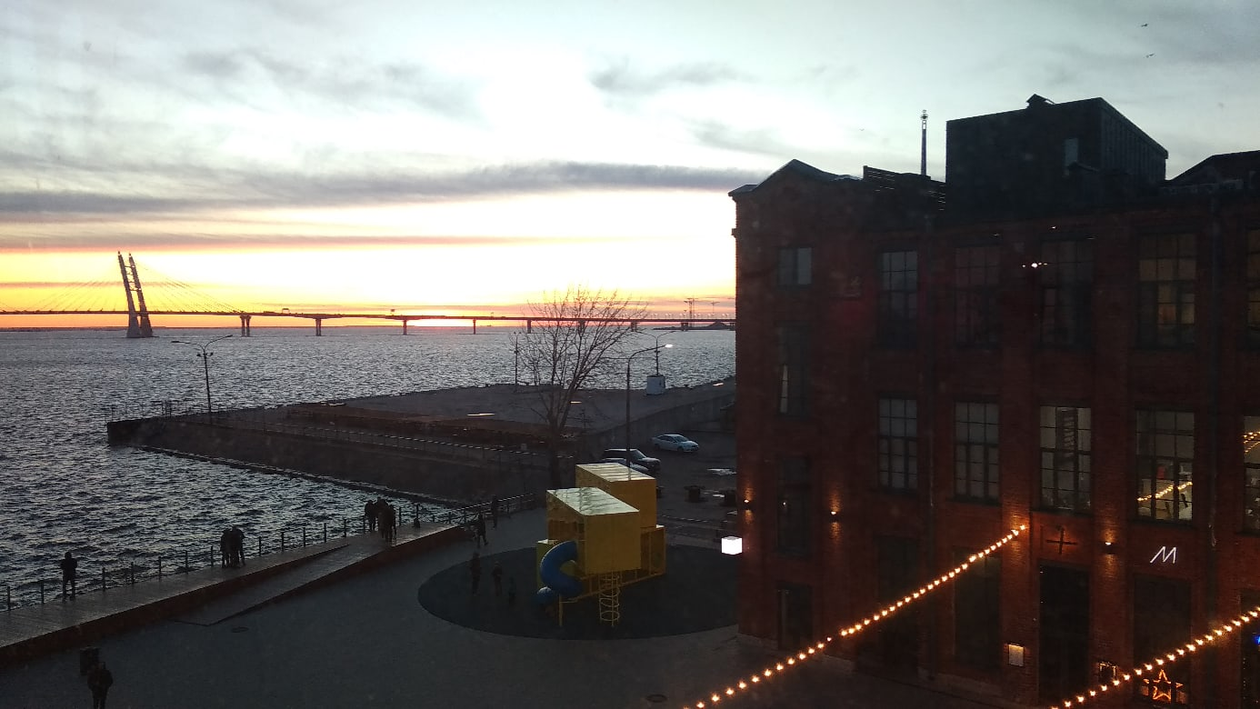 Sevkabel